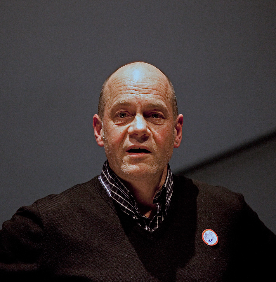 English Author Paul Stewart at litcologne, 2009-03-13